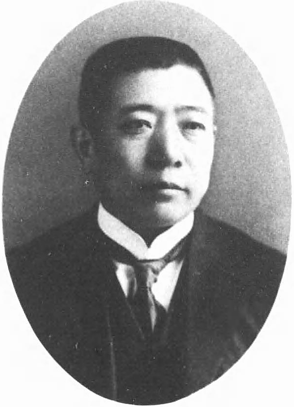 Yamaguchi Tsunetaro